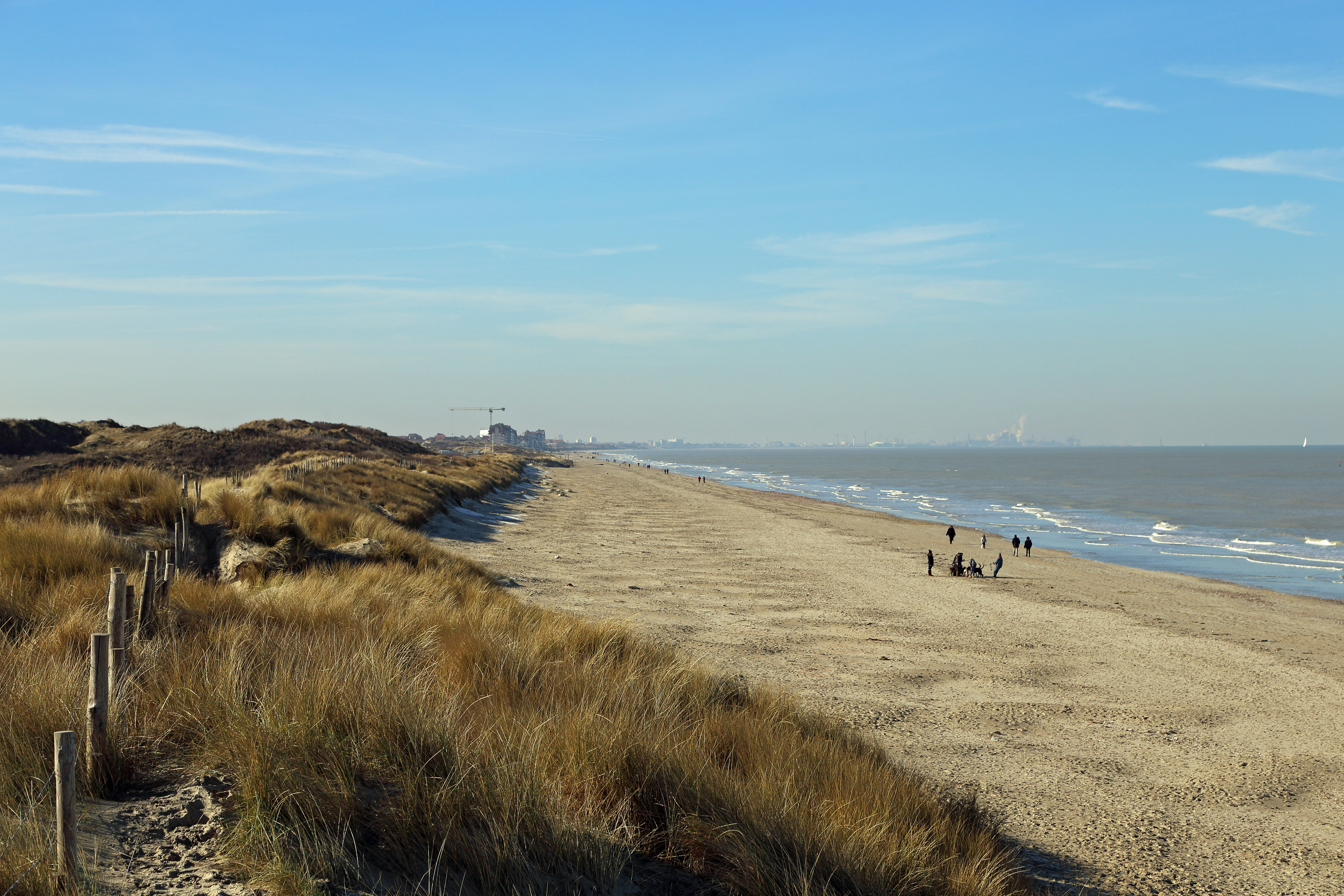 De Panne (Belgium): the beach on a bright winter's day, seen towards the French border. Far left: Bray-Dunes (France). Far right: the port of Dunkirk (France).